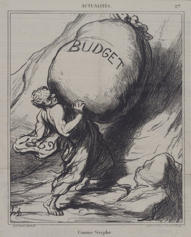 Part of the series Actualités, no. 27. Published in Le Charivari, 25 February 1869.